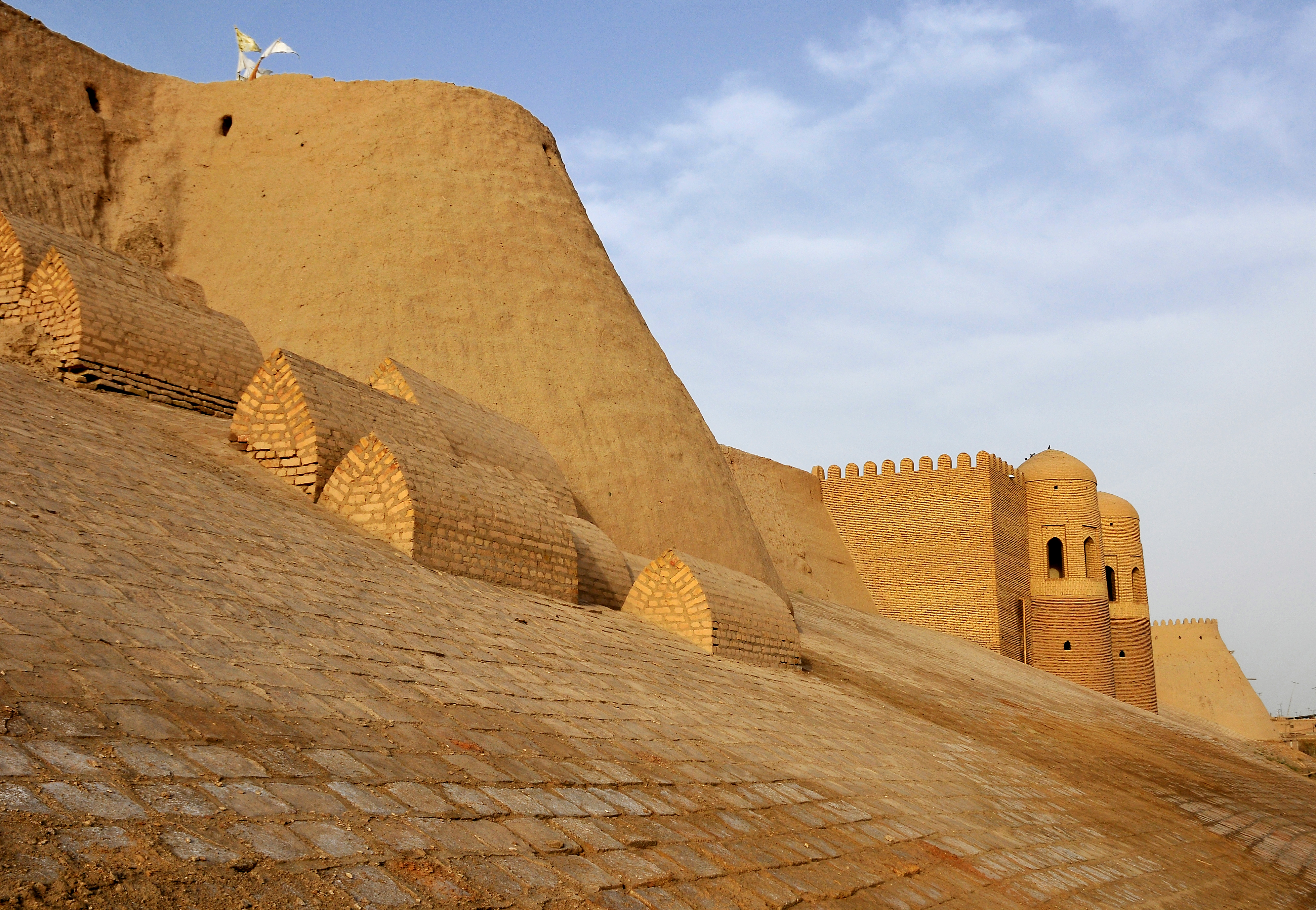 South section of the city wall, adjacent to the Stone Gate [Tosh Darvoza], with tombs. Khiva, Uzbekistan